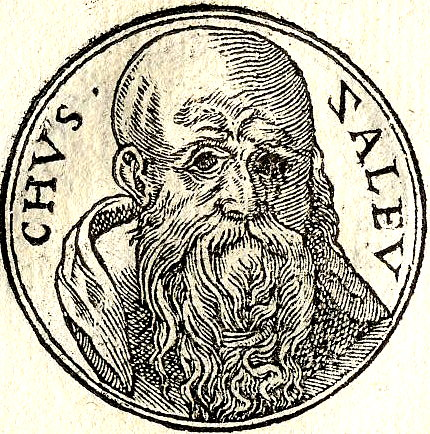 Zaleucus was the Greek lawgiver of Epizephyrian Locri, in Italy, said to have devised the first written Greek law code Archilochus was an Archaic or a Classical Greek poet and supposed mercenary, or, at least, a warrior.